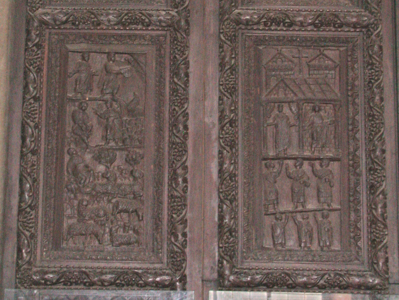 Rome, basilica of Santa Sabina all'Aventino. Detail from the carved portal, dating back from the 6th century.